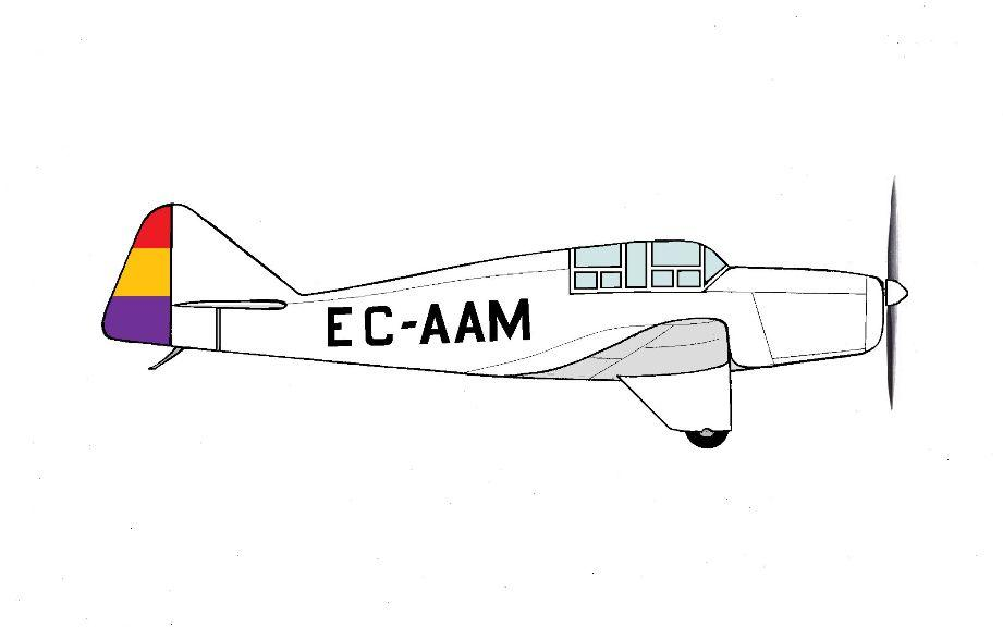 González Gil-Pazó GP-2 of the Aero Club de Zaragoza. In a picture of the mid 1930s it appears without wheel covers, probably for repairs